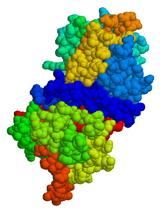 C1-inhibitor drawn from in RasMol and MicroSoft Paint and Photo Editor by JFW